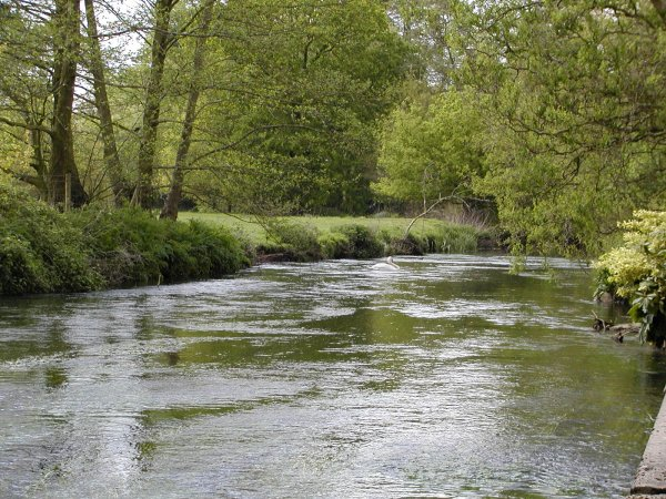 I am the original owner of this photograph and release it into the public domain.